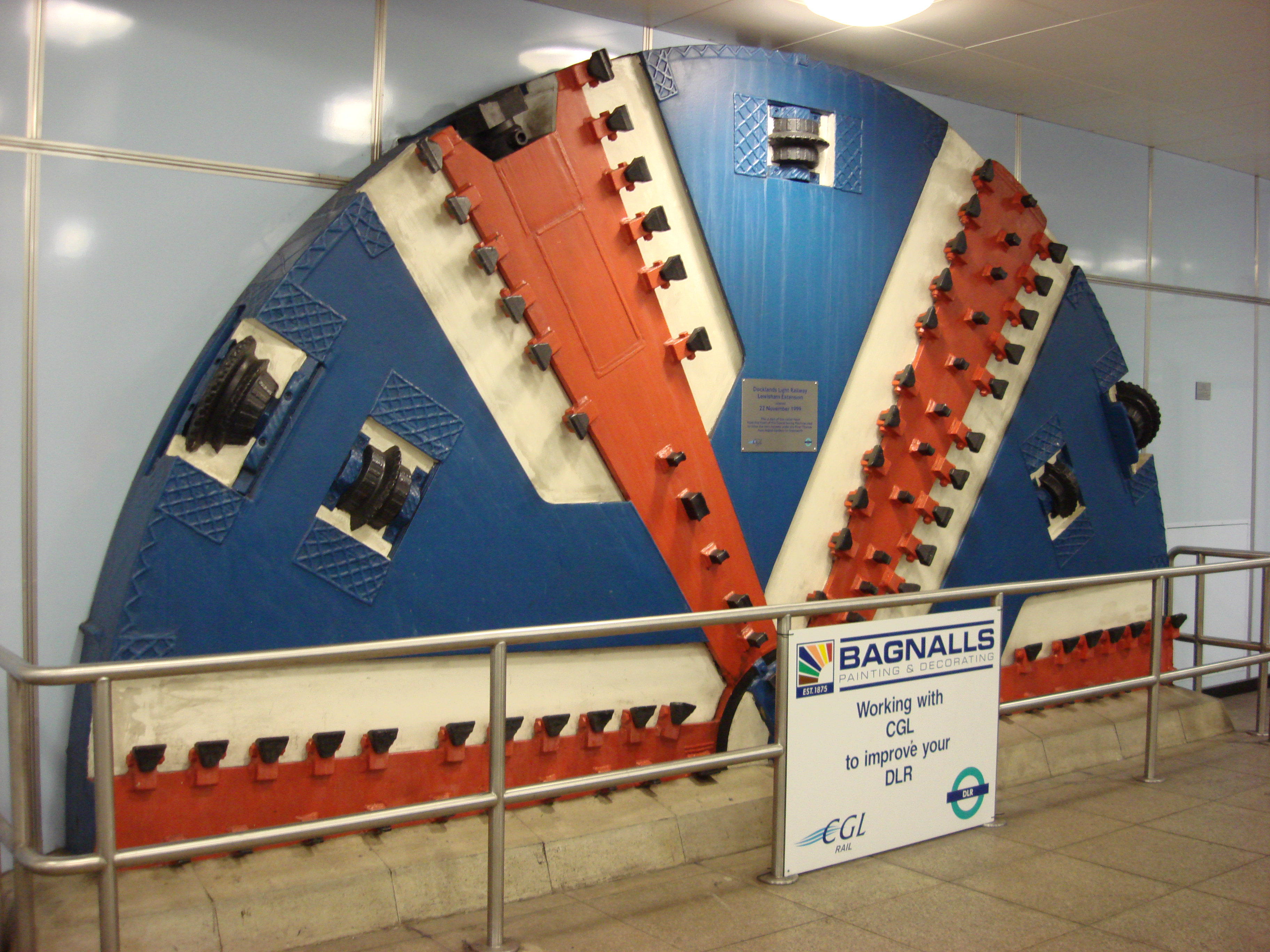 Part of the cutter head from the front of the TBM (Tunnel Boreing Machine) used to drive the twin tunnels under the river Thames from Island Gardens to Greenwich exhibited at Cutty Sark DLR station.